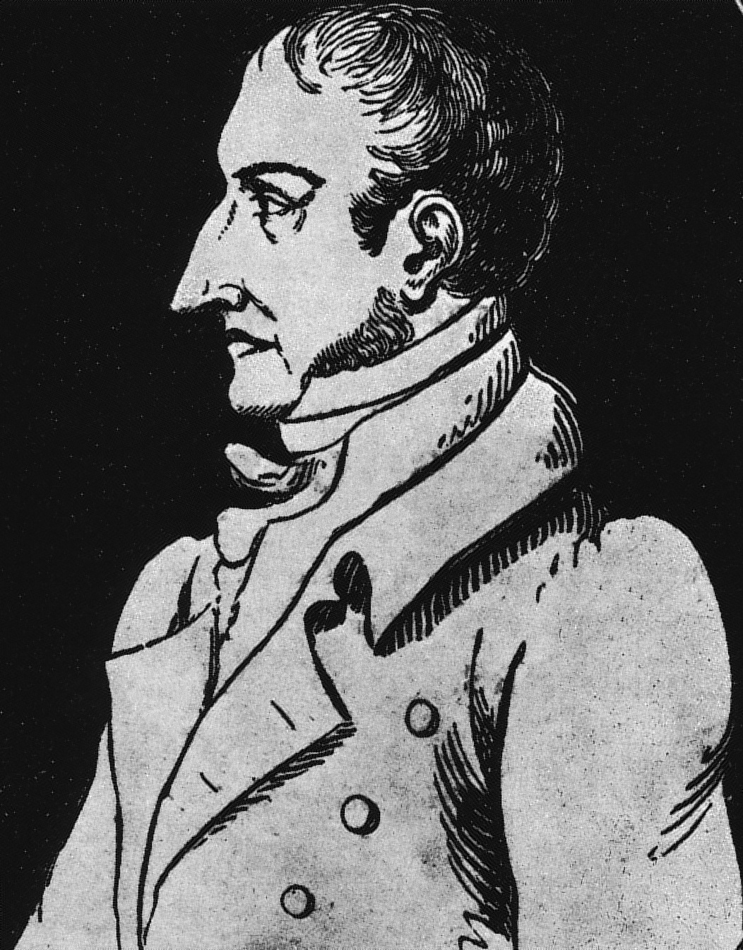 print of drawing of Ikey Solomon, original criminal on whom Fagin is based.